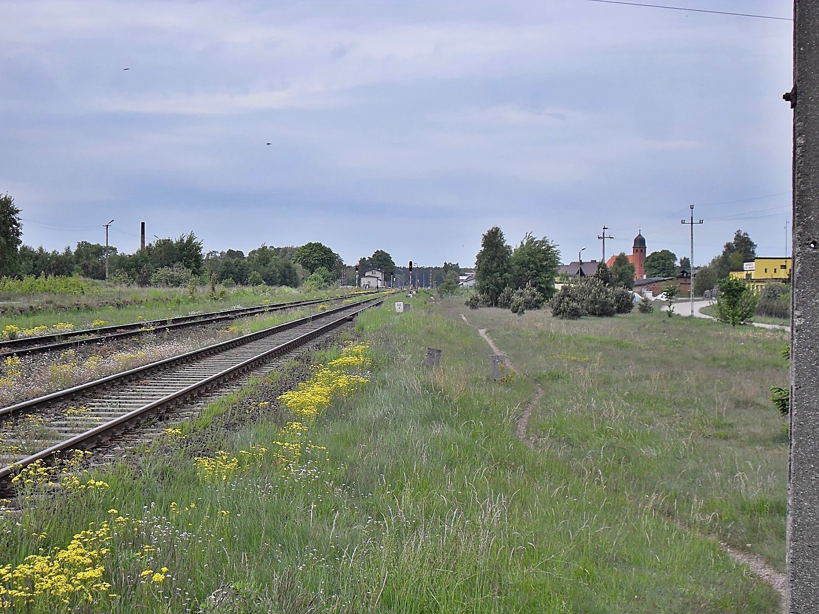 Towards the railway station Kaliska